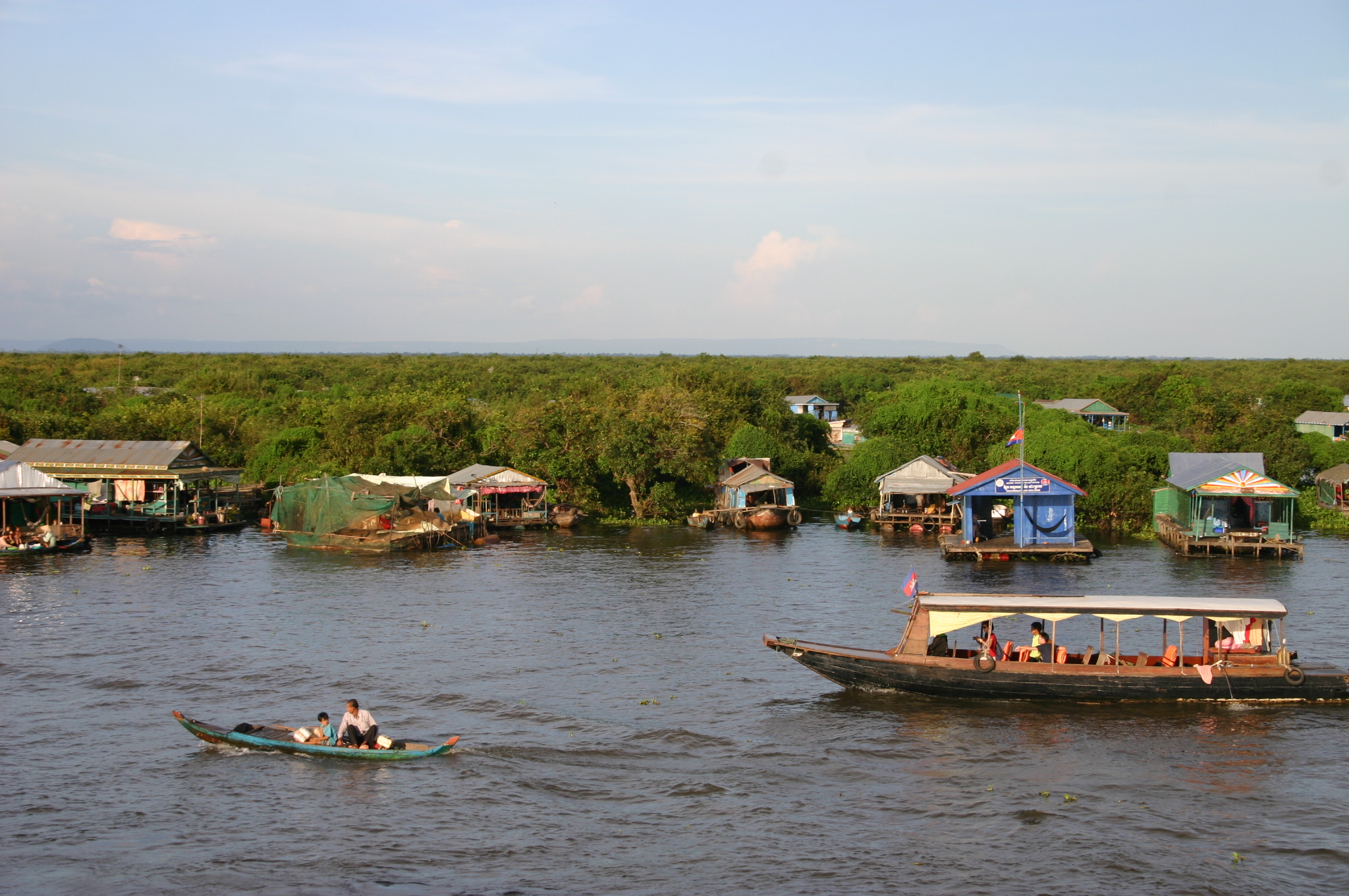 Tonle Sap - floating village